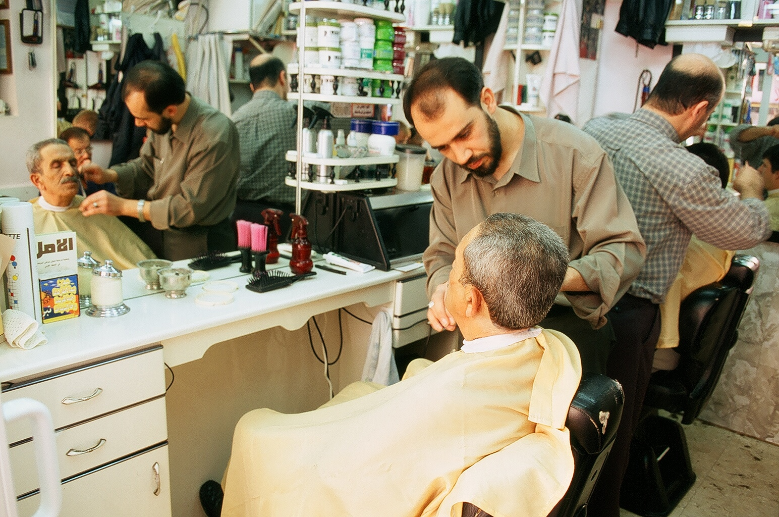 Barbers at work in Israel